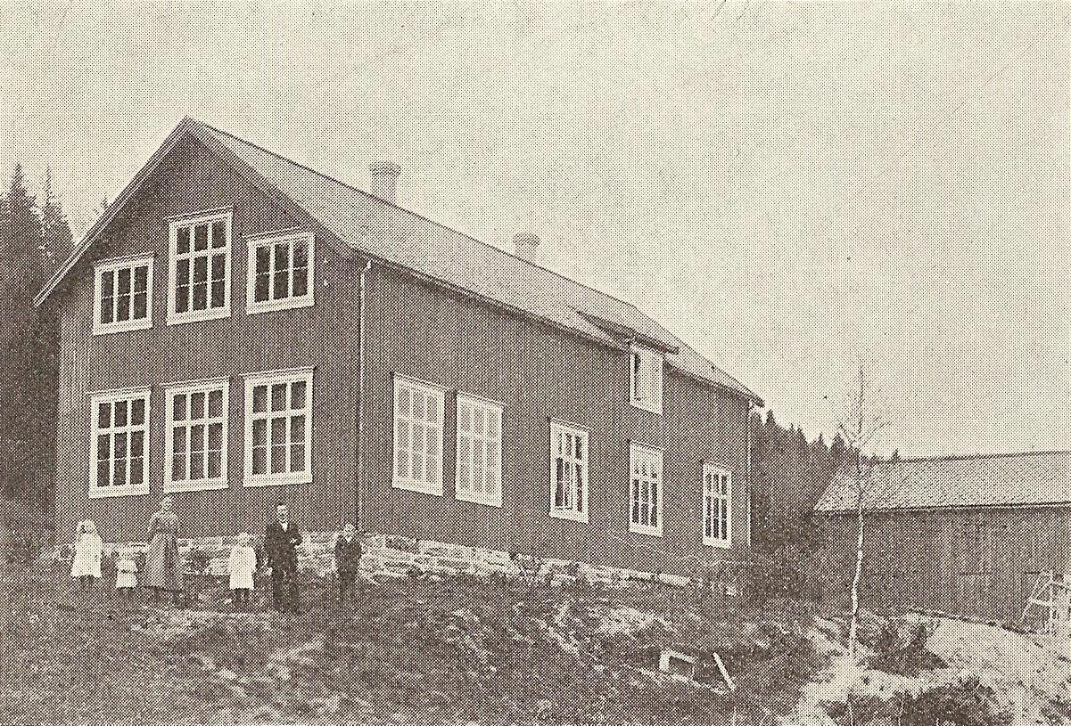 Vassbygda Skole ("School of Vassbygda") in Skatval (a village in Norway) in 1928